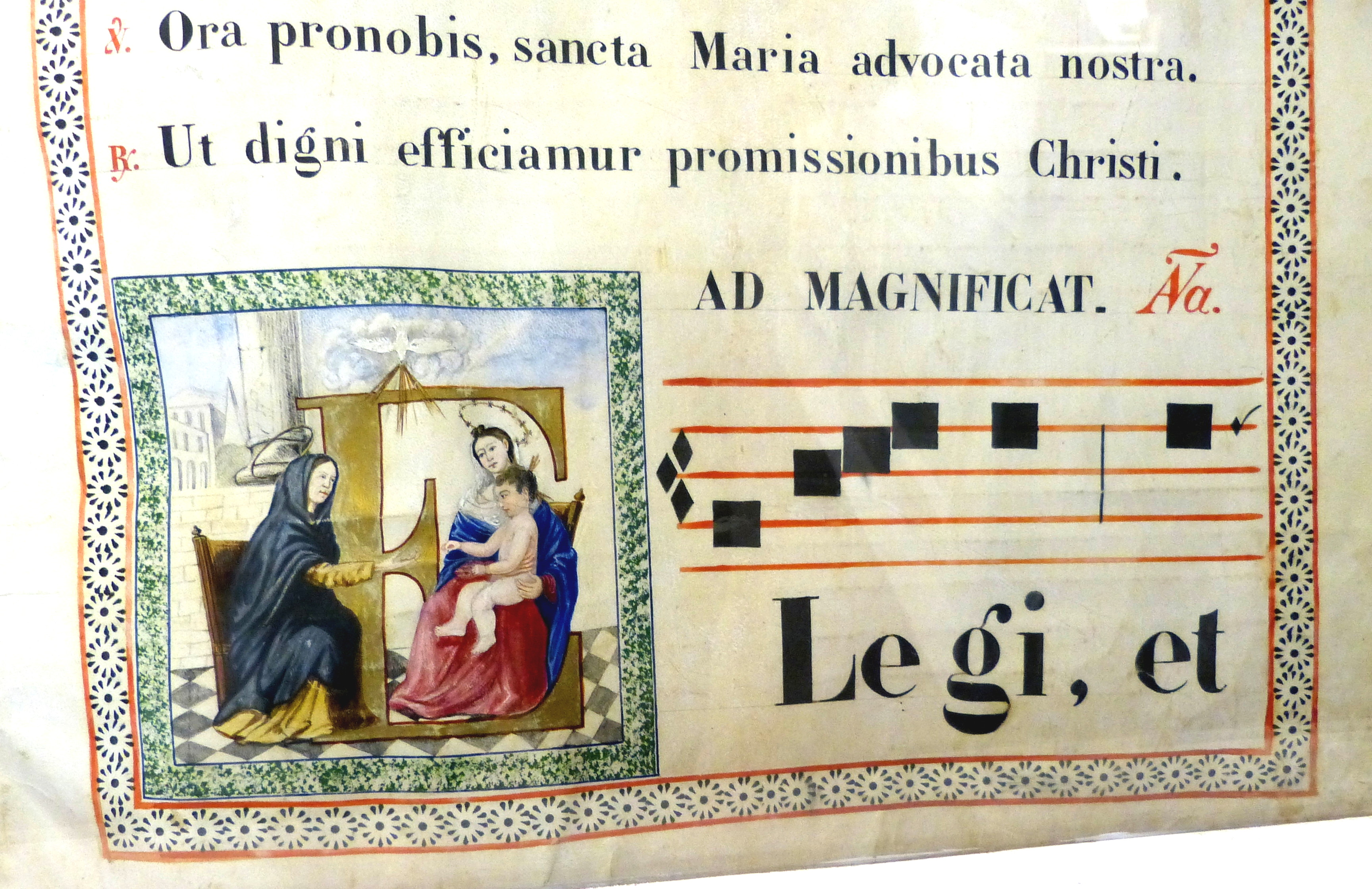 Las Palmas ( Gran Canaria ). Museo Diocesano de Arte Sacro: Magnificat ( 1864 )